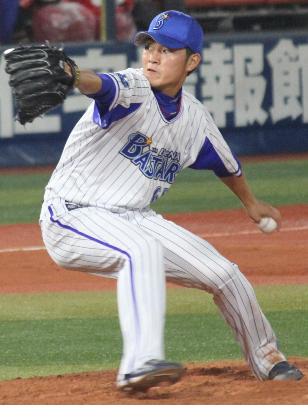 Yoshiki Sunada, pitcher of the Yokohama DeNA BayStars, at Yokohama Stadium.